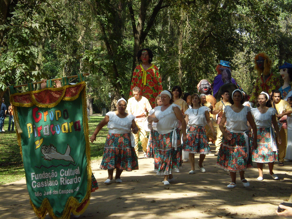 Piracuara Group, in São José dos Campos, São Paulo, Brazil.